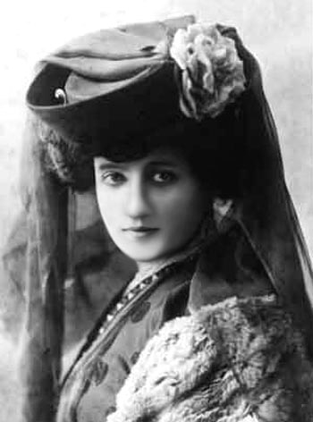 'Baroness' Raymonde de Laroche